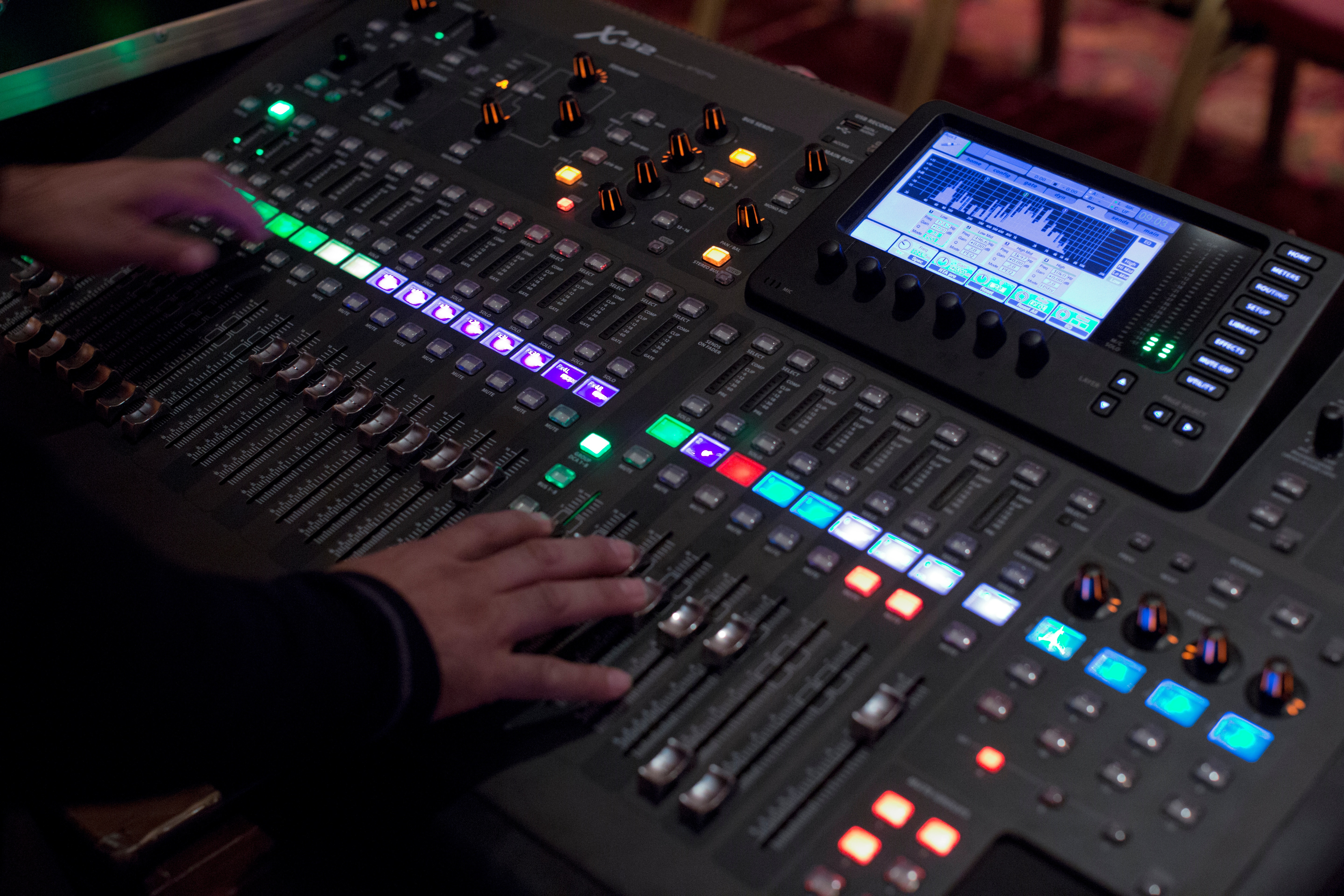 Behringer X32 Digital Mixer in operation - angled Pxhere Tags: technology electronics audio synthesizer audio equipment sound mixer musical keyboard electronic instrument analog synthesizer audio engineer mixing console record producer sound design Free Images.